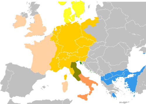 Mid-13th century (c. 1250) Holy Roman Empire at its greatest territorial extent and the Byzantine Empire, by the end of the Crusades. Holy Roman Empire Republic of Venice, a merchant republic outside the Holy Roman Empire with close ties to it Papal States, officially a part of the Holy Roman Empire but nevertheless somewhat independent with Papacy often feuding with the Holy Roman Emperor Kingdom of Sicily in personal union with the Holy Roman Emperor Byzantine Empire